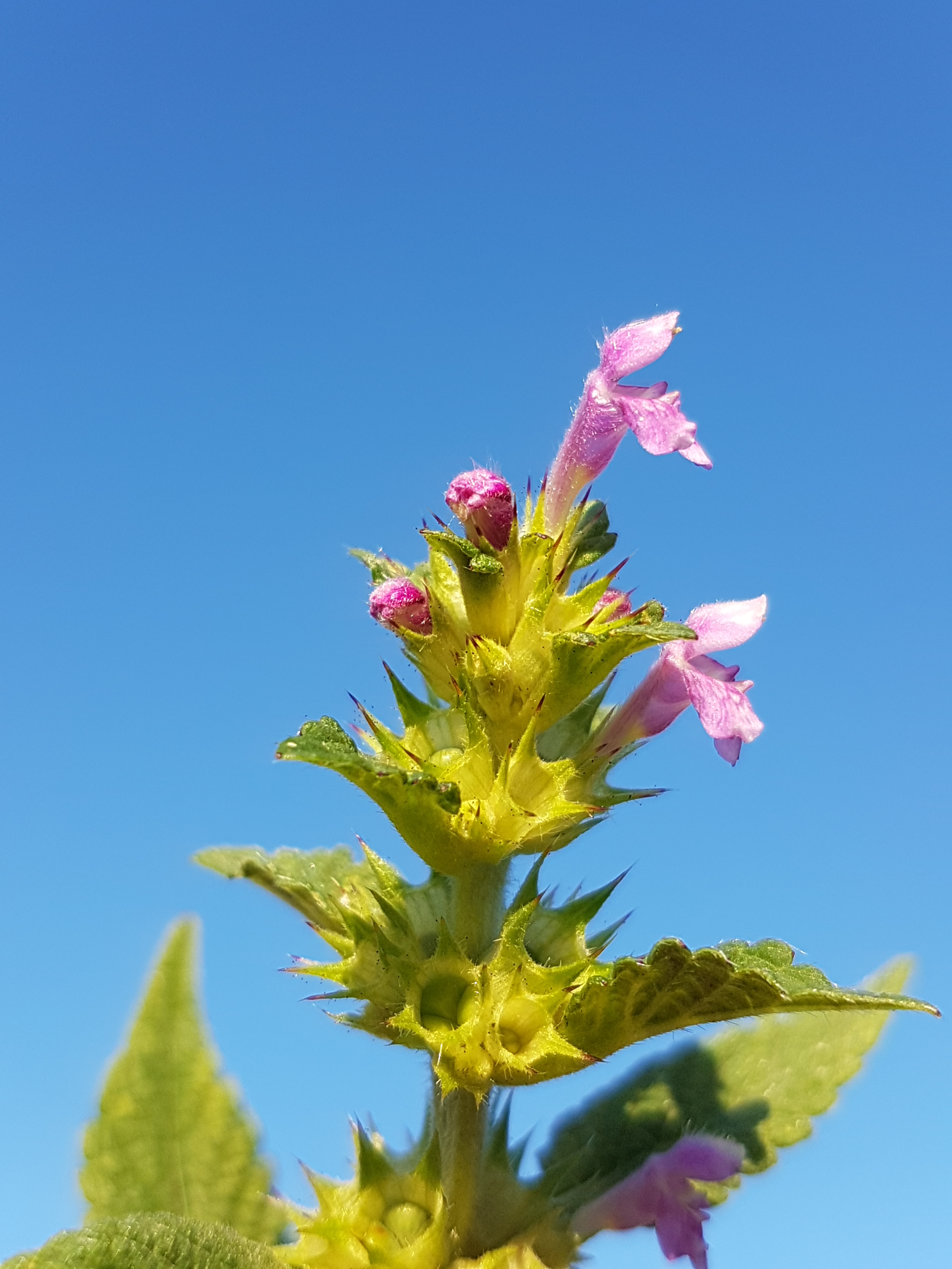 Inflorescence Taxonym: Galeopsis pubescens subsp. pubescens ss Fischer et al. EfÖLS 2008 ISBN 978-3-85474-187-9 Location: Unterschleißheim, district München, Bavaria, Germany - ca. 473 m a.s.l. Habitat: earth dump